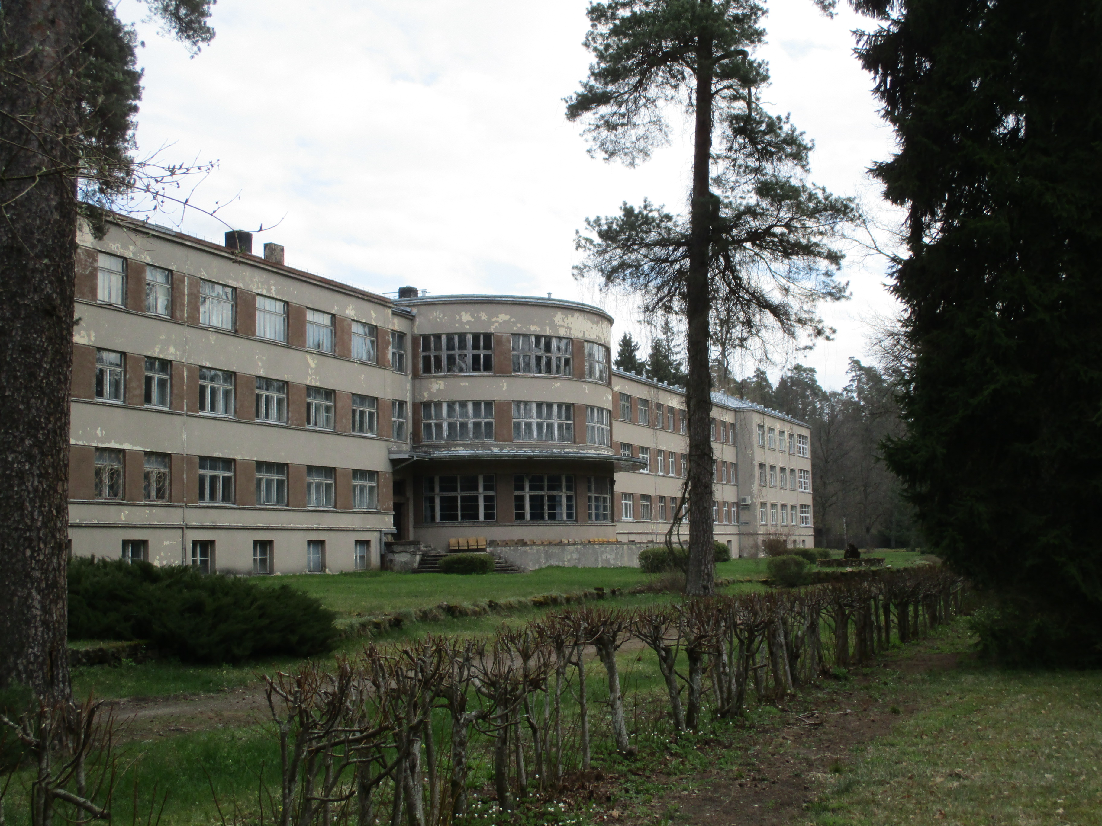 Sanatorium Tērvete with a park. Tērvete parish.